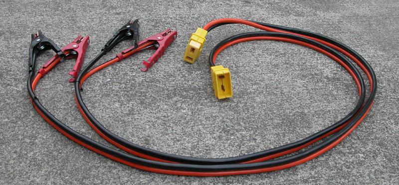 Pair of jumper cables